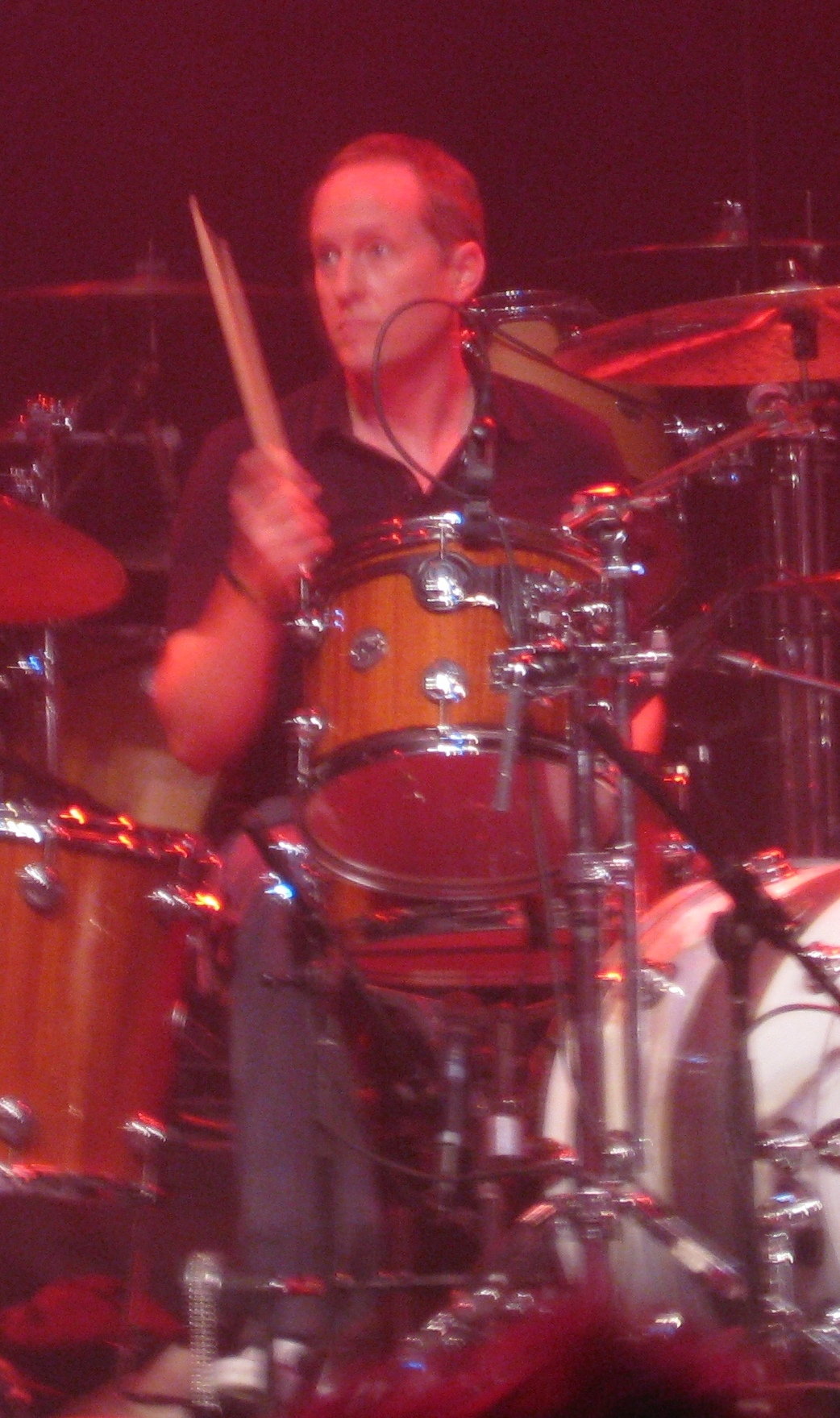 Drummer Josh Freese of The Vandals performing December 18, 2011 at the Santa Monica Civic Auditorium in Santa Monica, California as part of the GV30 event.